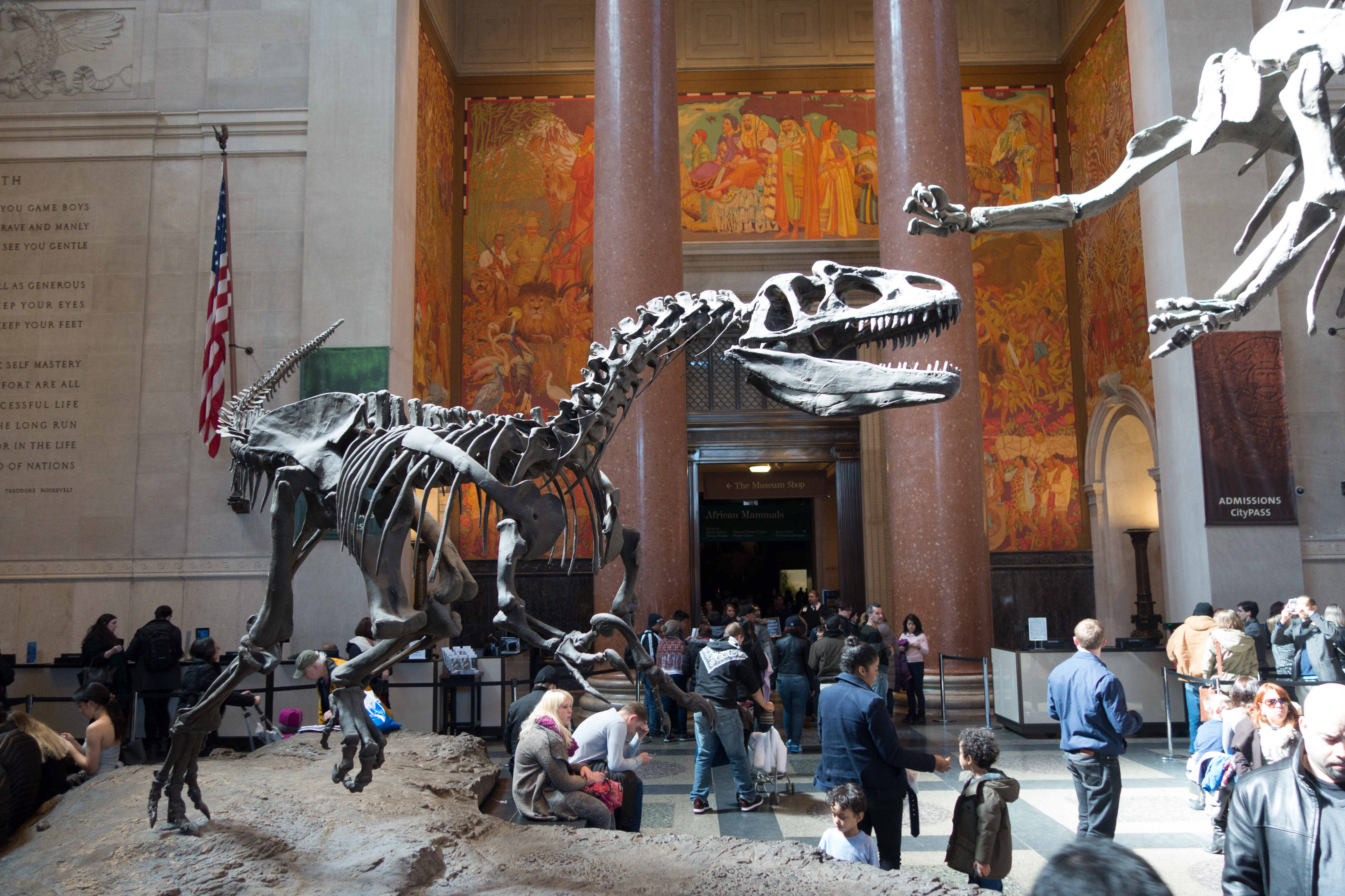 New York City 2015